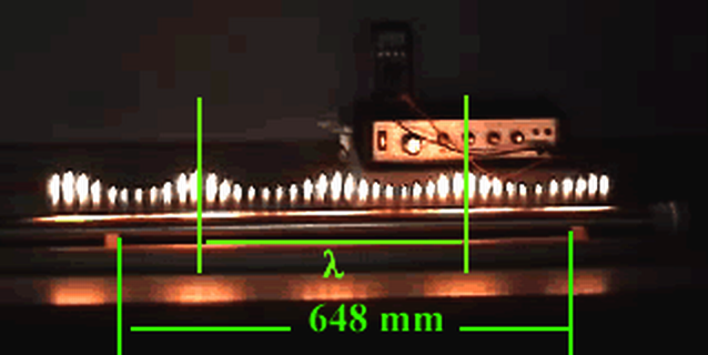 A Rubens' Tube setup, done at Hutt International Boys School, Wellington, New Zealand. Photo courtesy of Physics Department at Victoria University of Wellington, Wellington, New Zealand. This image demonstrates the measurement of the wavelength of a tone played into the device.